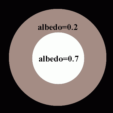 Knowing the absolute magnitude (H) of a minor planet is only the start to truly knowing how big the object is. You can have a smaller body that is more reflective or you can have a larger body that is less reflective. Different albedo estimates will result in different size estimates. The above diagram shows the size difference between an object with an albedo of 0.2 and the same object with an albedo of 0.7